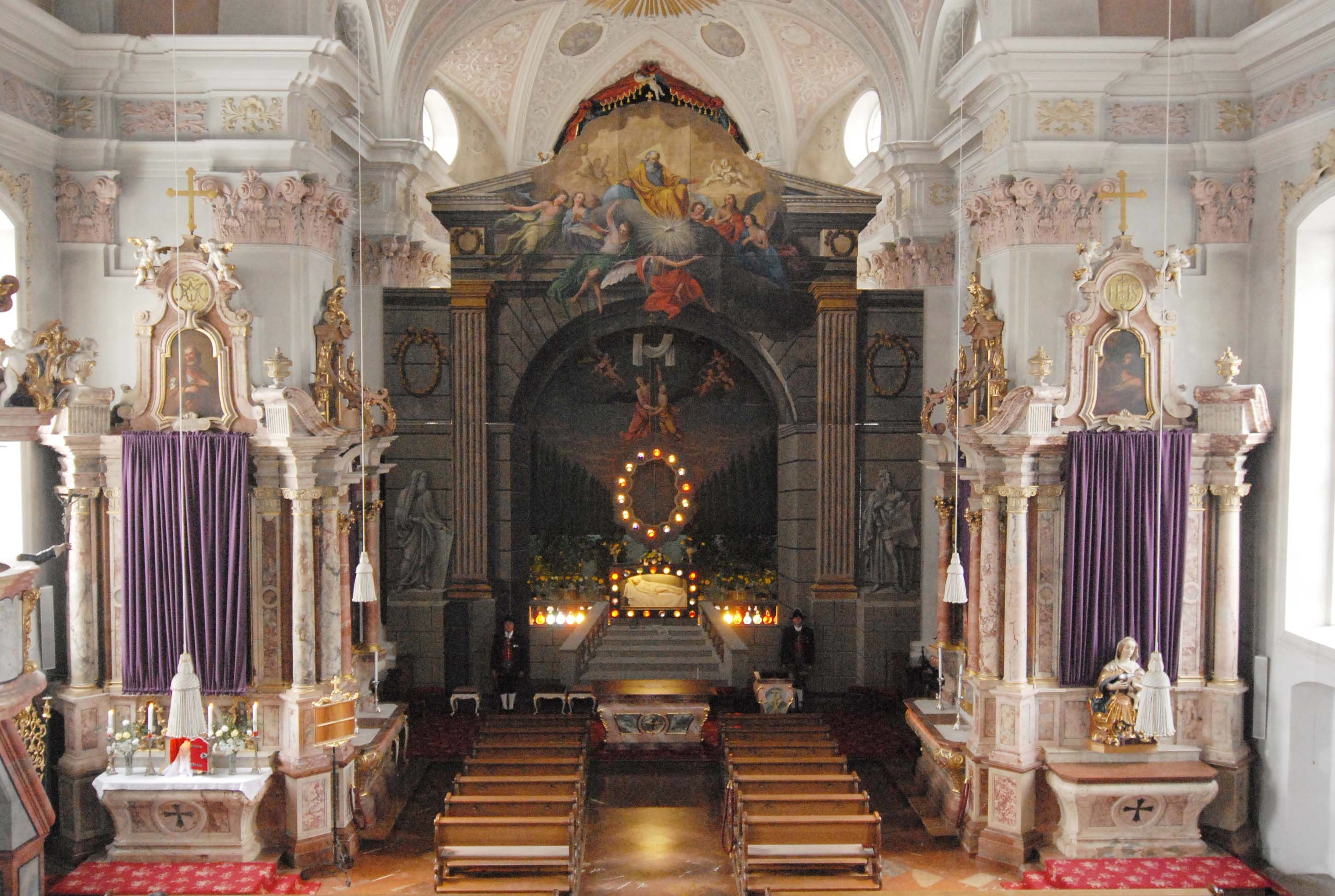 Sankt Johann in Tirol, Deanery Church of the Assumption. Interior facing south-east with temporary Holy Sepulchre on main altar.